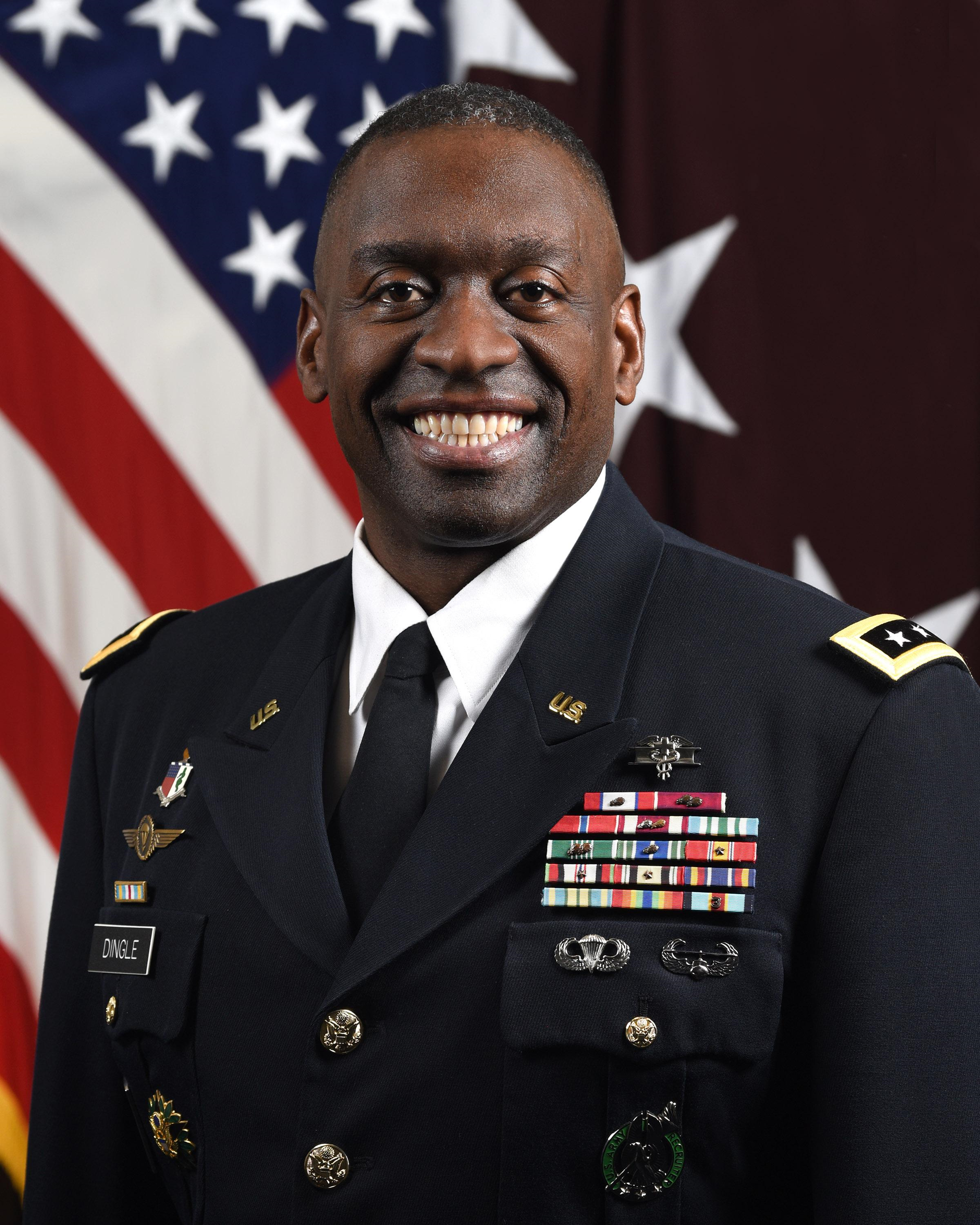 Lt. Gen. R. Scott Dingle, The Surgeon General